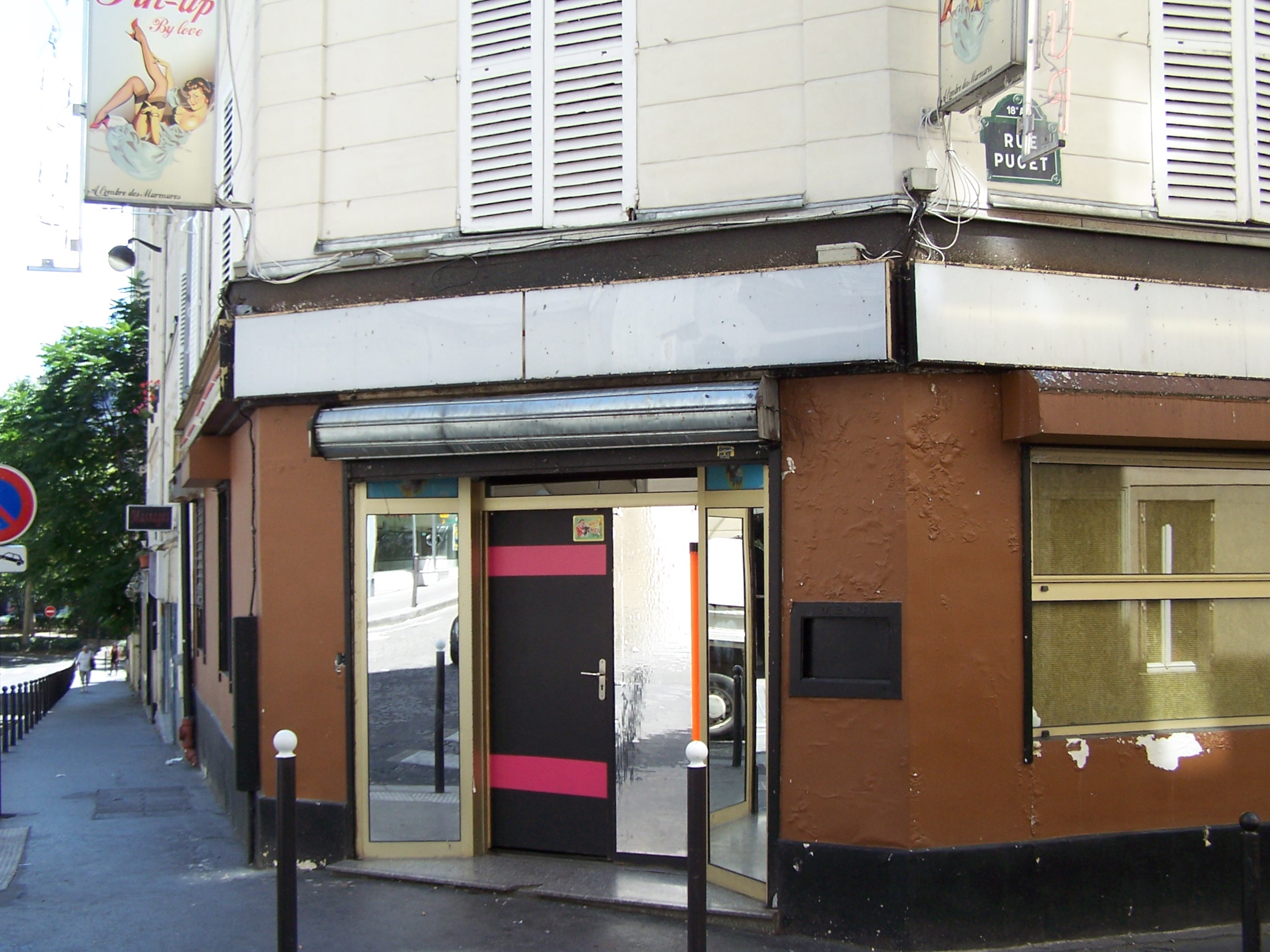 Entrée du Pin-up Bar, angle rue Puget/rue Coustou, Paris